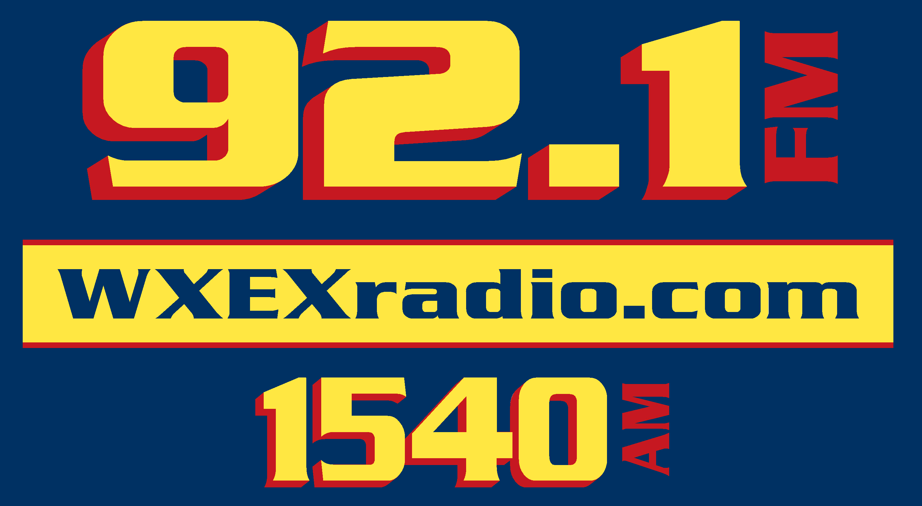 Logo of the radio stations WXEX-AM and WXEX-FM.